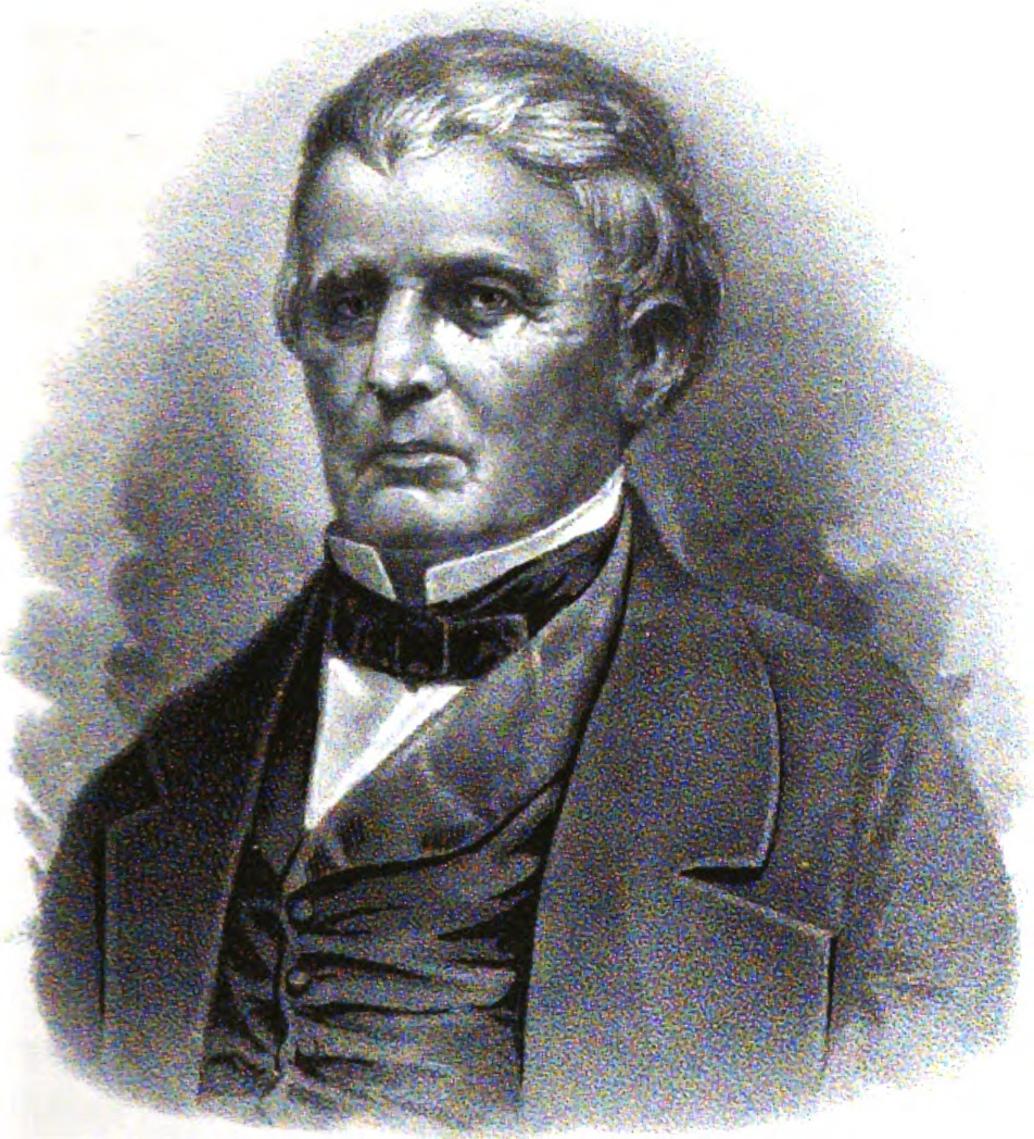 Cyrus Spink, congressman from Wooster, Ohio.